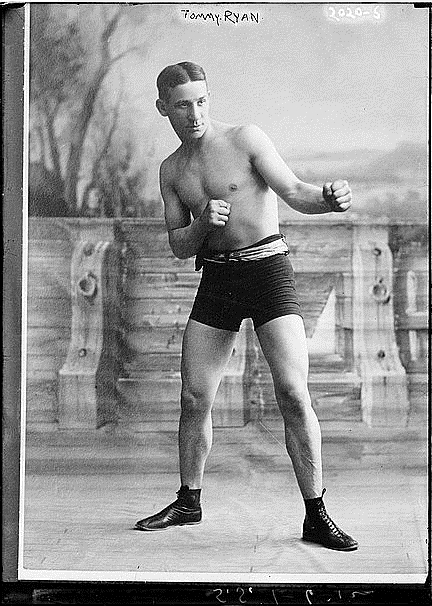 Tommy Ryan (1870 – 1948), an American boxer